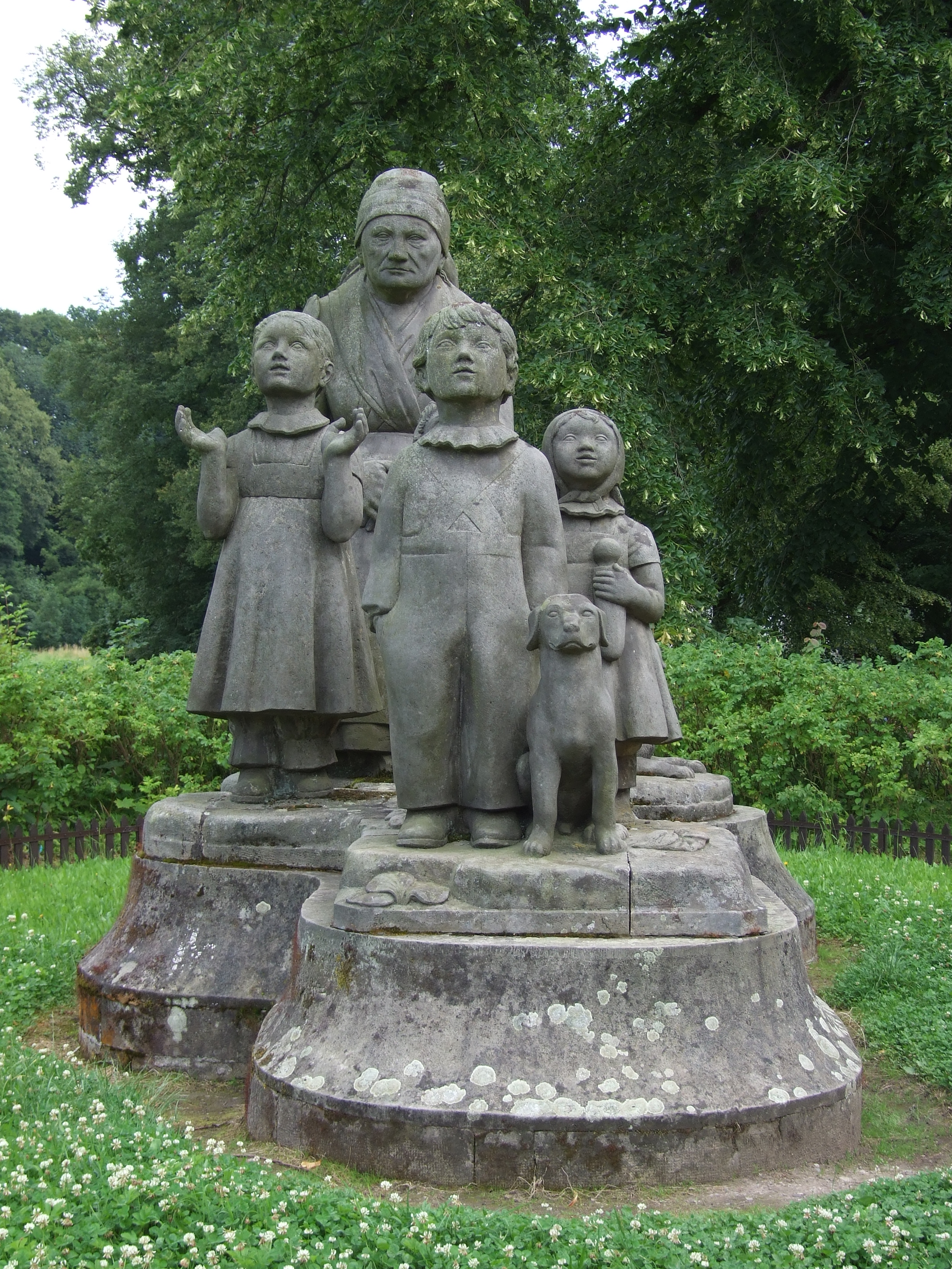 Memorial "Grandmother with grandchildren" by Otto Gutfreund and Pavel Janák, erected in 1922 in Ratibořice (Hradec Králové Region, Czech Republic).